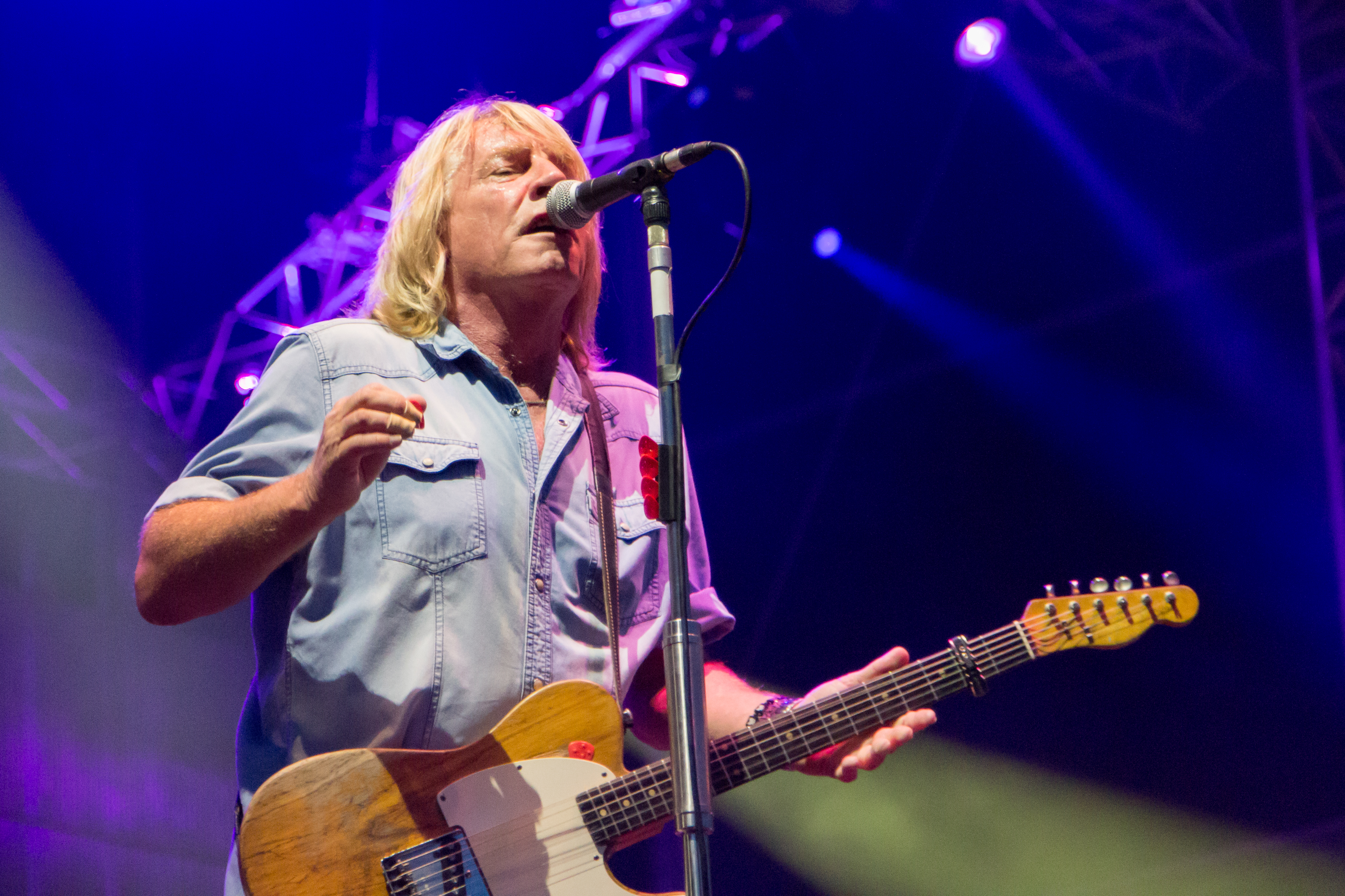 Rick Parfitt from Status Quo at the See-Rock Festival 2014